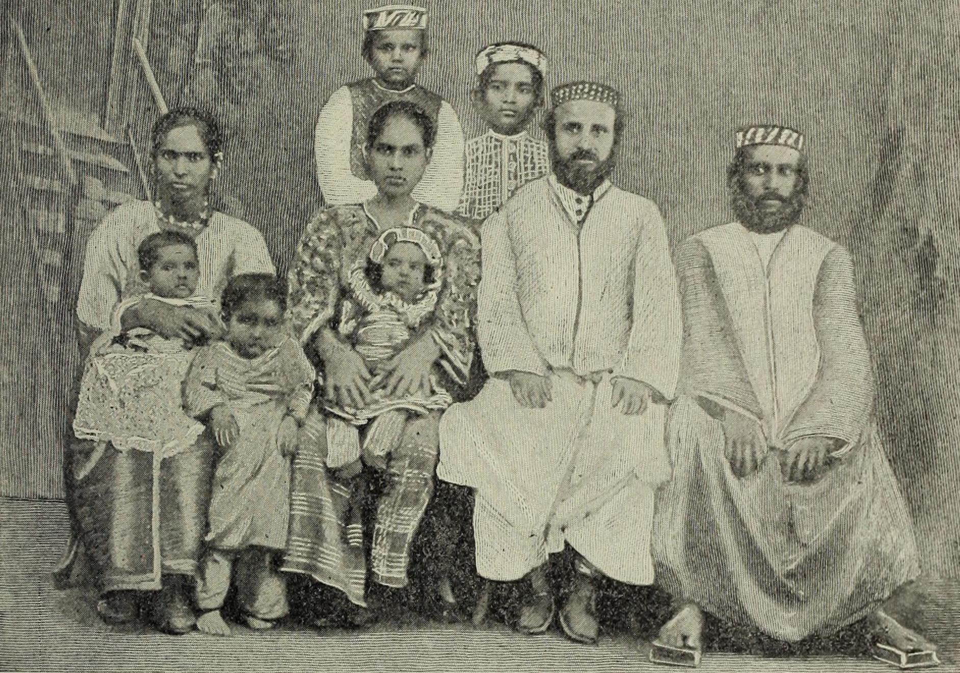 Cochin Jews, c. 1900. From the 1901-1906 Jewish Encyclopedia, now in the public domain. Caption read "© "